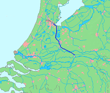 Location of a waterway (river/canal) Amsterdam-Rhine Canal in the Netherlands